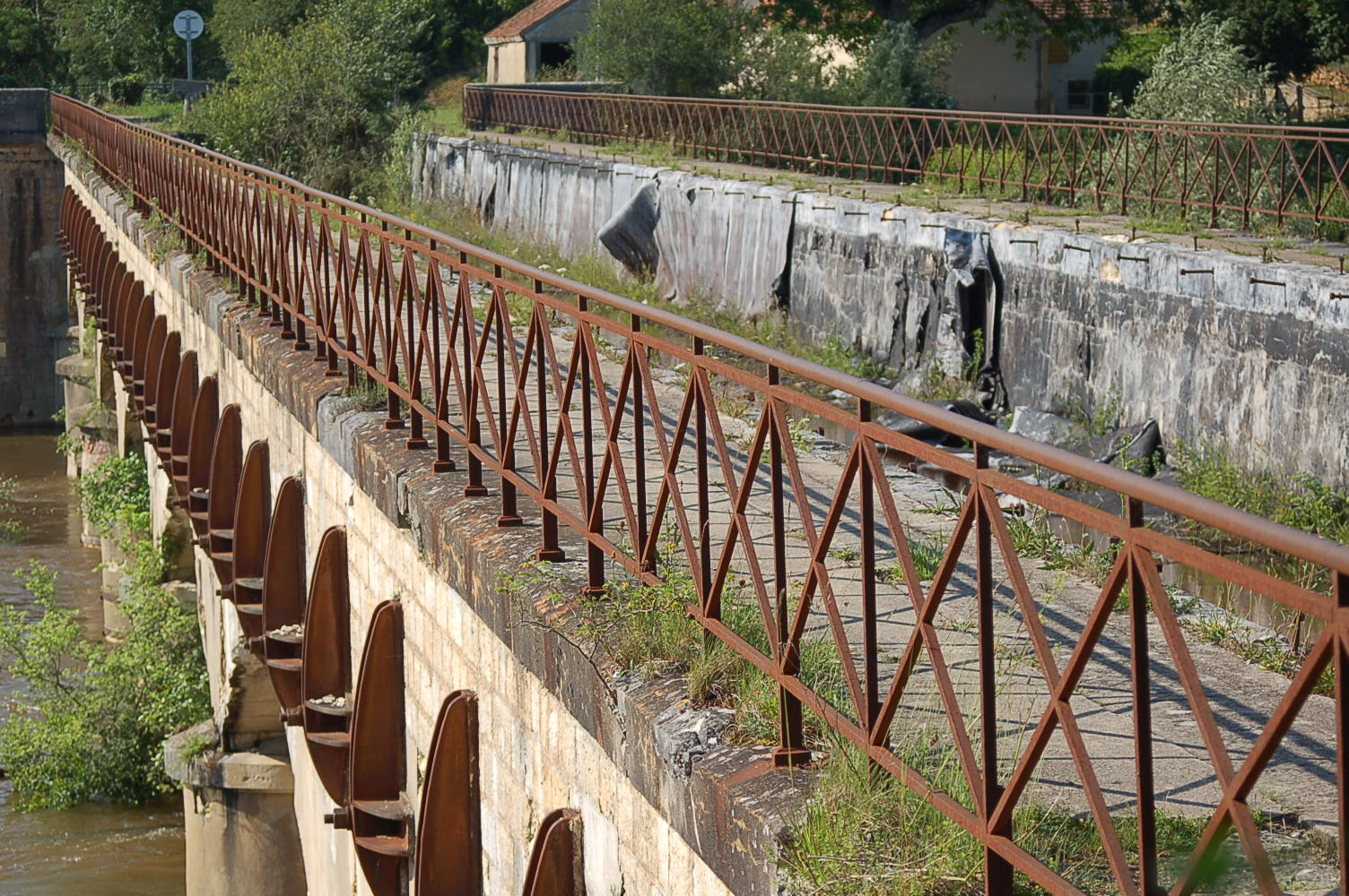 Bridge of La Tranchasse